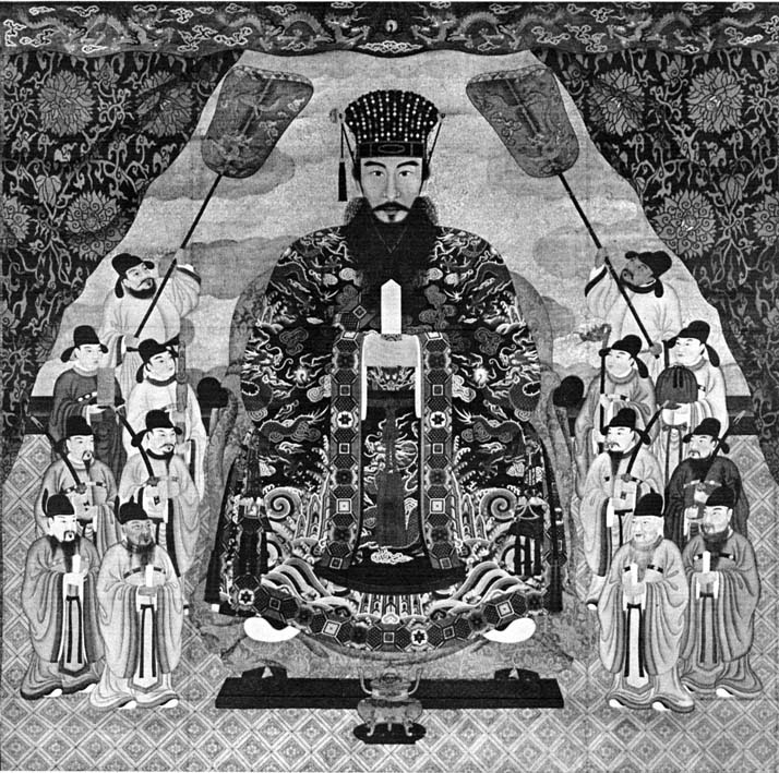 King Sho Iku, 1813-1847